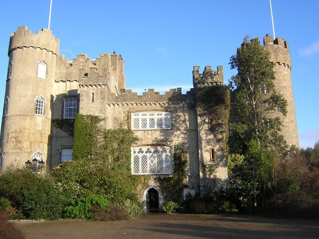 Malahide Castle This is the entrance to Malahide Castle.